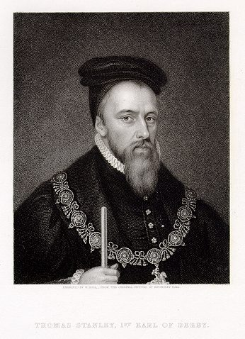 19th century engraving after a 16th century portrait. It has been claimed to be of Thomas Stanley, 1st Earl of Derby (* c 1435; † 1504), but clearly is not as the costume and beard are from the late 16th century. It is most probably Edward the 3rd Earl (1509-72, or possibly Henry the 4th Earl. Both were bearded, and were Knights of the Garter, but the beard is most similar to Edward's. English statesman.